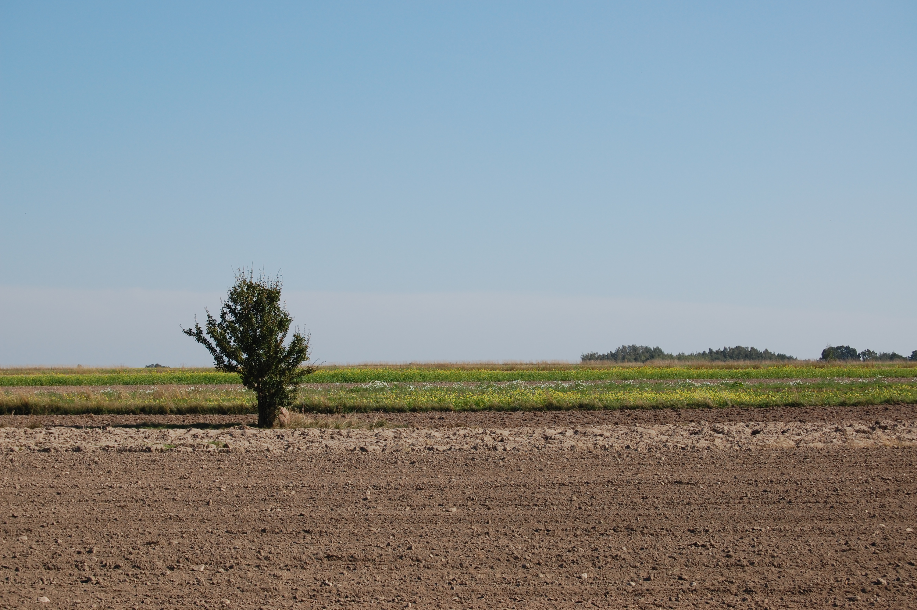 Fields near Żelechów, Poland